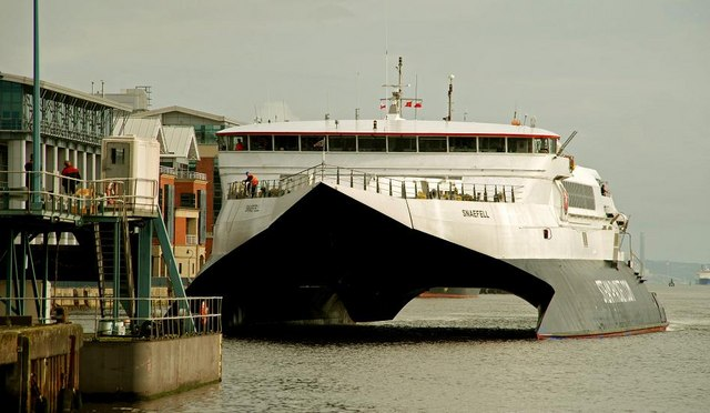 Arrival of the "Snaefell", Belfast. The "Snaefell" 953734 arriving at her berth at Donegall Quay, Belfast on the seasonal twice-weekly sailing from Douglas. The last sailing from Belfast in 2008 is shown as the 10.45 on 28 September.